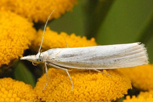 Crambus perlella from Commanster, Belgian High Ardennes .